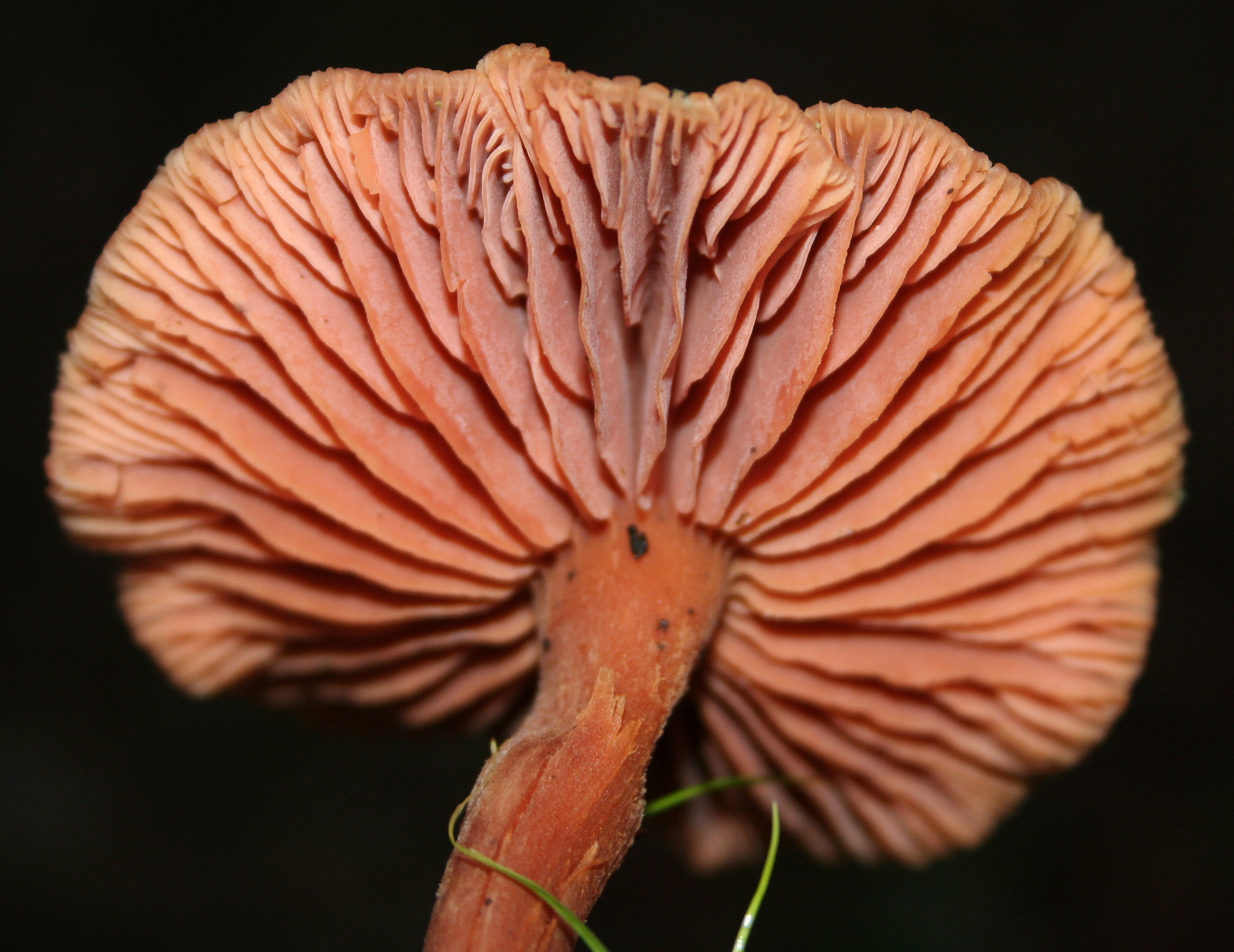 Deceiver